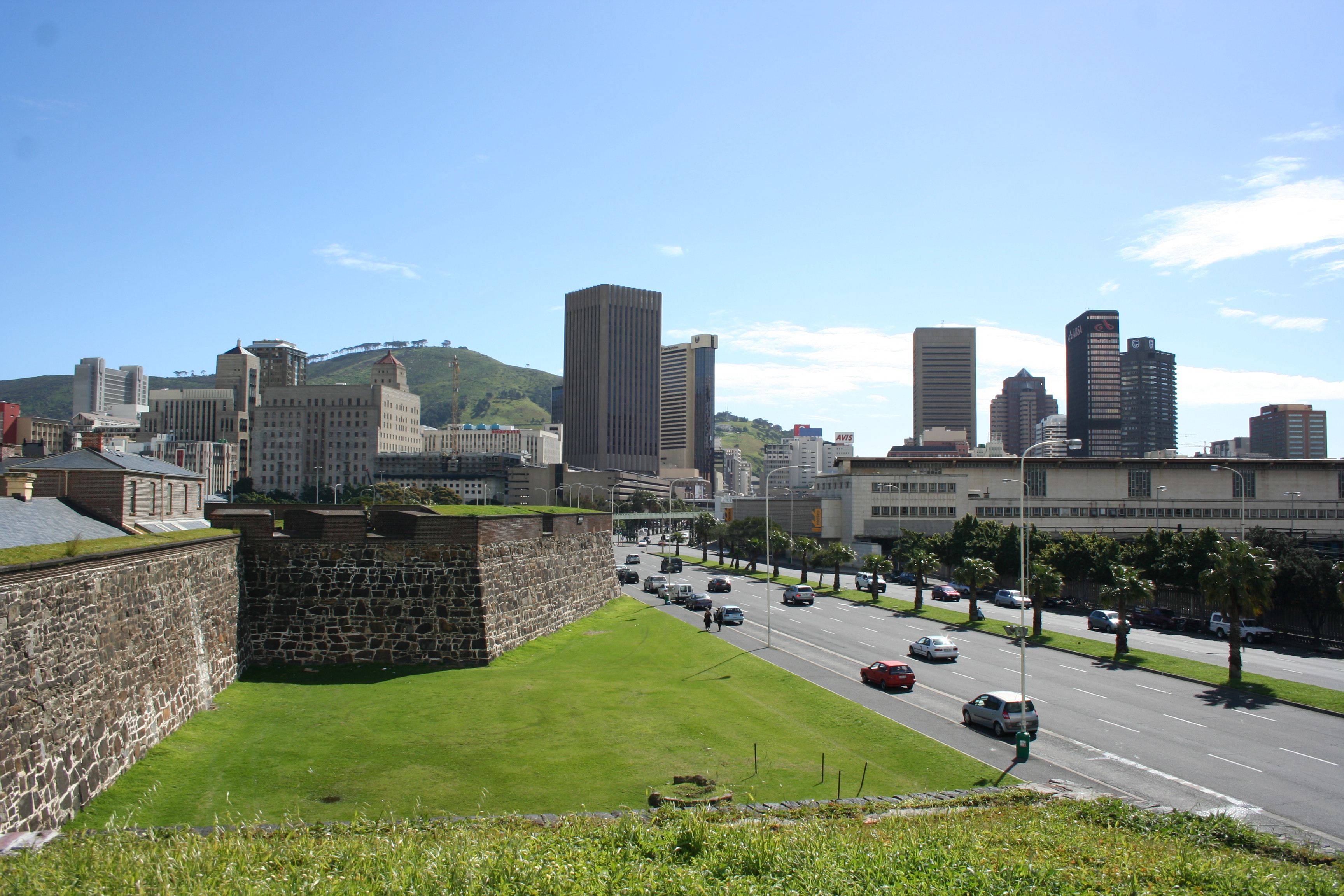 North view from the Castle of Good Hope, Cape Town This media shows a South African Protected Site with SAHRA file reference 9/2/018/0056.